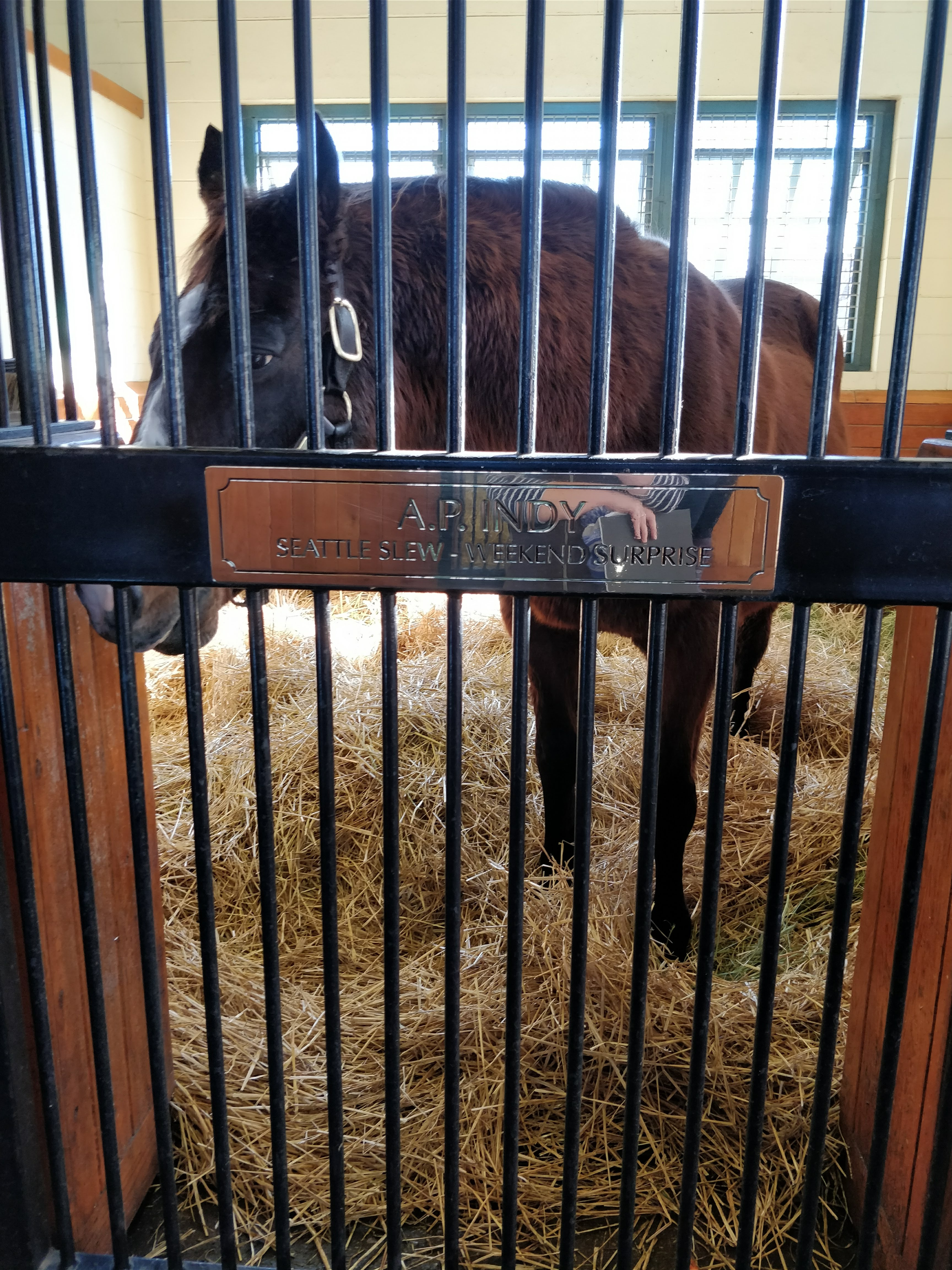 Lanes End - AP Indy Retired from breeding - now 29 years old! Feel free to use this photo however you like, just attribute . Thanks!